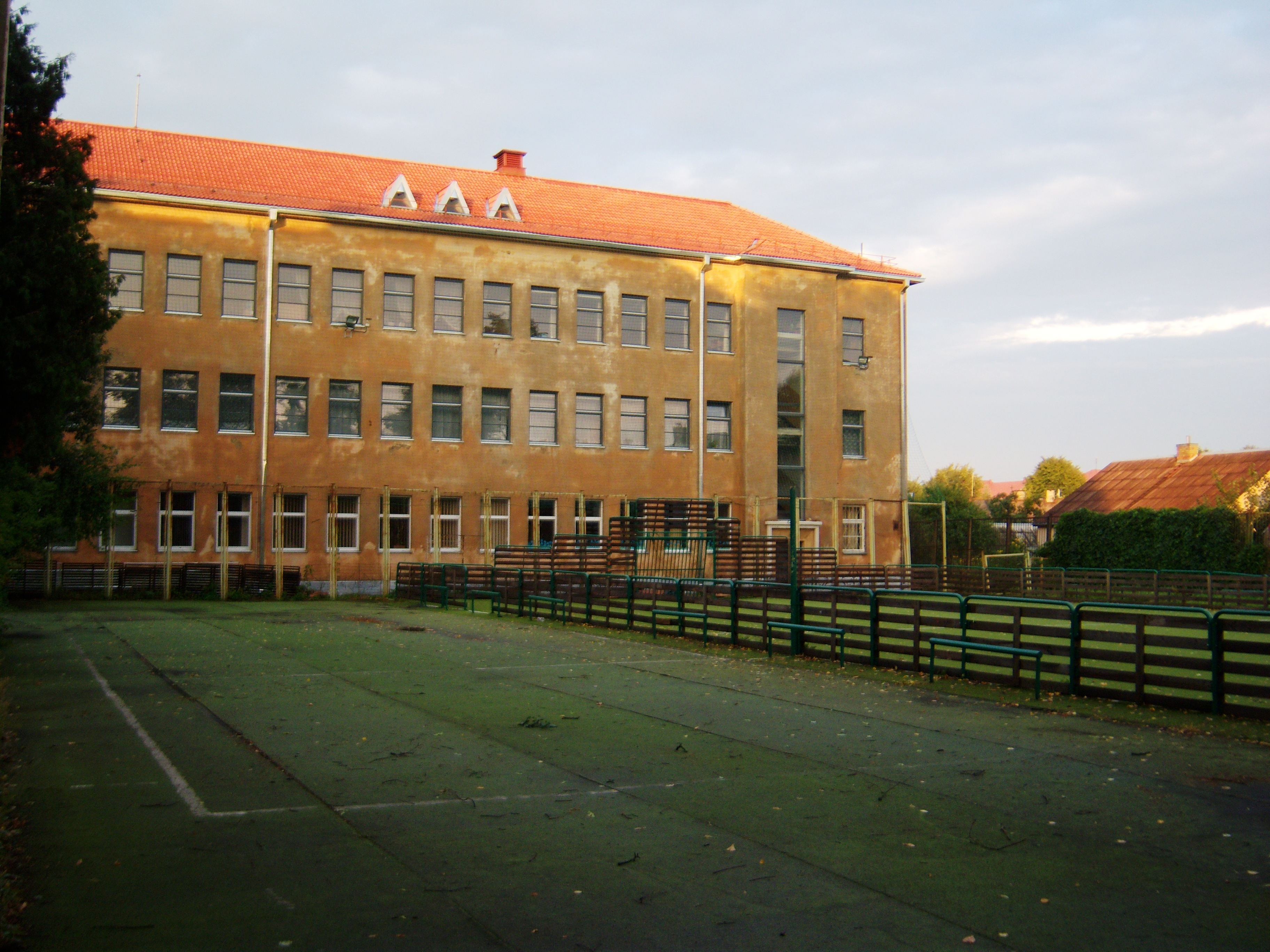 Gediminas Sport and Health Promotion Secondary School, Kaunas, Lithuania